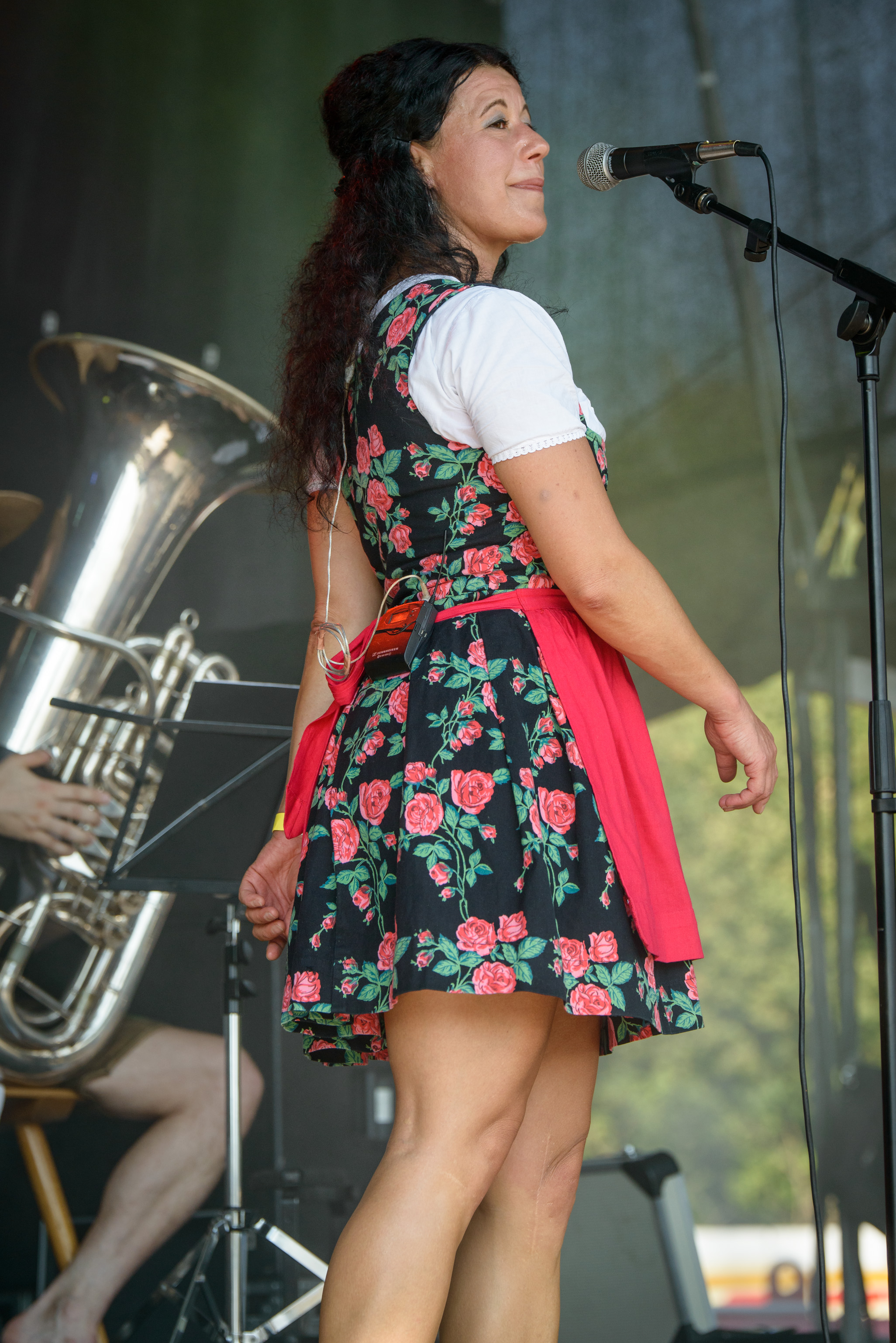 the Heimatdamisch Live @ Brass Wiesn 2015